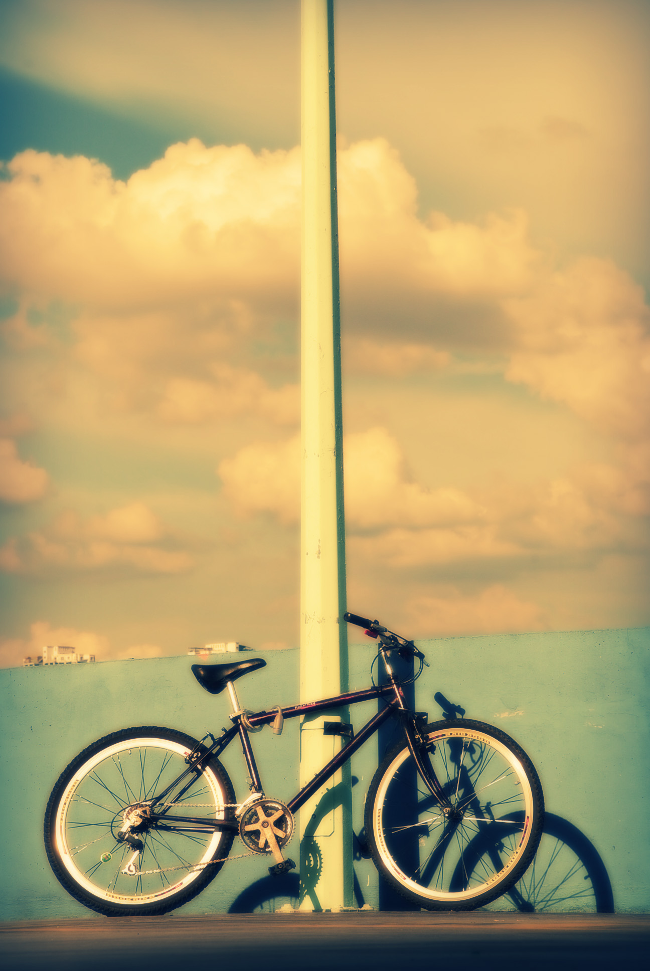 cross processed picture of a bike